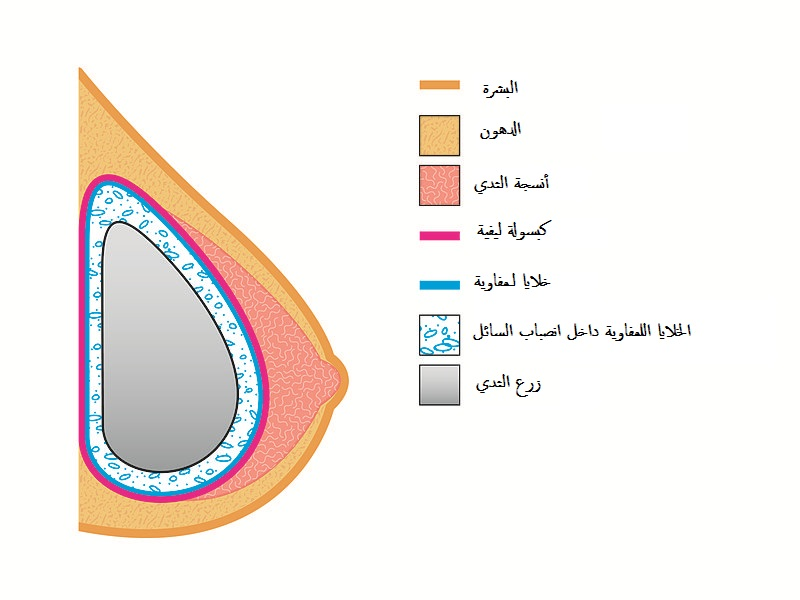 This illustration shows the typical location of the ALCL that was diagnosed in patients with breast implants. ALCL is lymphoma, a type of cancer involving cells of the immune system. It is not cancer of the breast tissue. This is a retouched picture, which means that it has been digitally altered from its original version. Modifications: Translated to Arabic - عُرِبَت. The original can be viewed here: Breast Implants & Cancer (5387274671).jpg. Modifications made by Islam90.